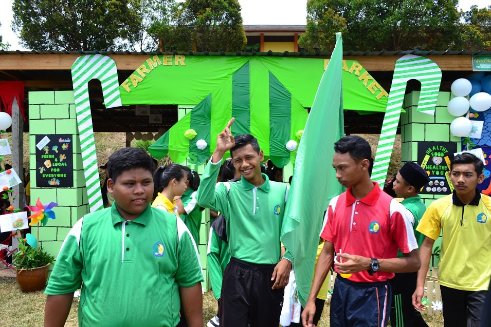 sukan 2018 (1)